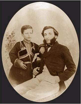 Brothers Zubalashvili. 1856. 12 x 16